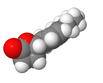 Space filling model of a Z6-dodecen-4-olide molecule